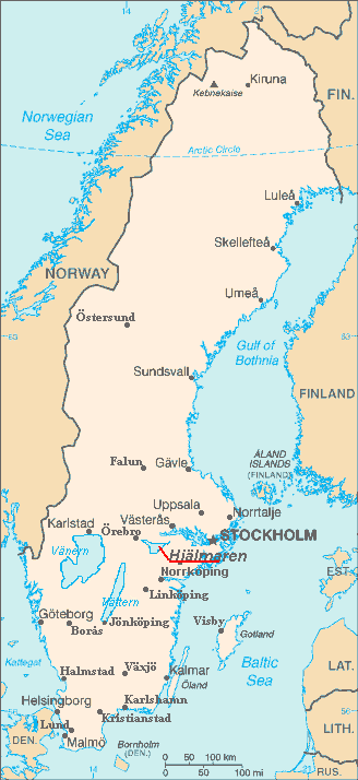 Lake Hjälmaren (see red arrow) Attempt at showing the location of lake Hjälmaren in Sweden. The map shows Lake Hjälmaren in south central Sweden, east at Orebro, and west of Lake Mälaren in the Stockholm area. Lake Hjälmaren is connected by water-way with Stockholm by the 13-km long Hjälmare kanal.